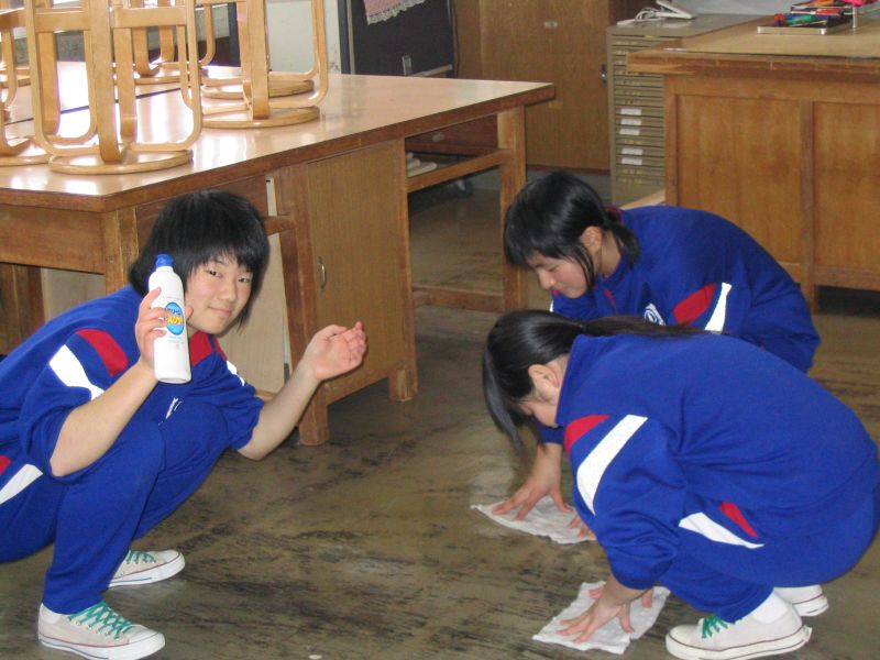 Girls in P.E. uniform doing the major cleaning at school-year-end cleaning day in March. Demachi Jr. High, Tonami City, Toyama, JAPAN 富山県砺波市立出町中学校.